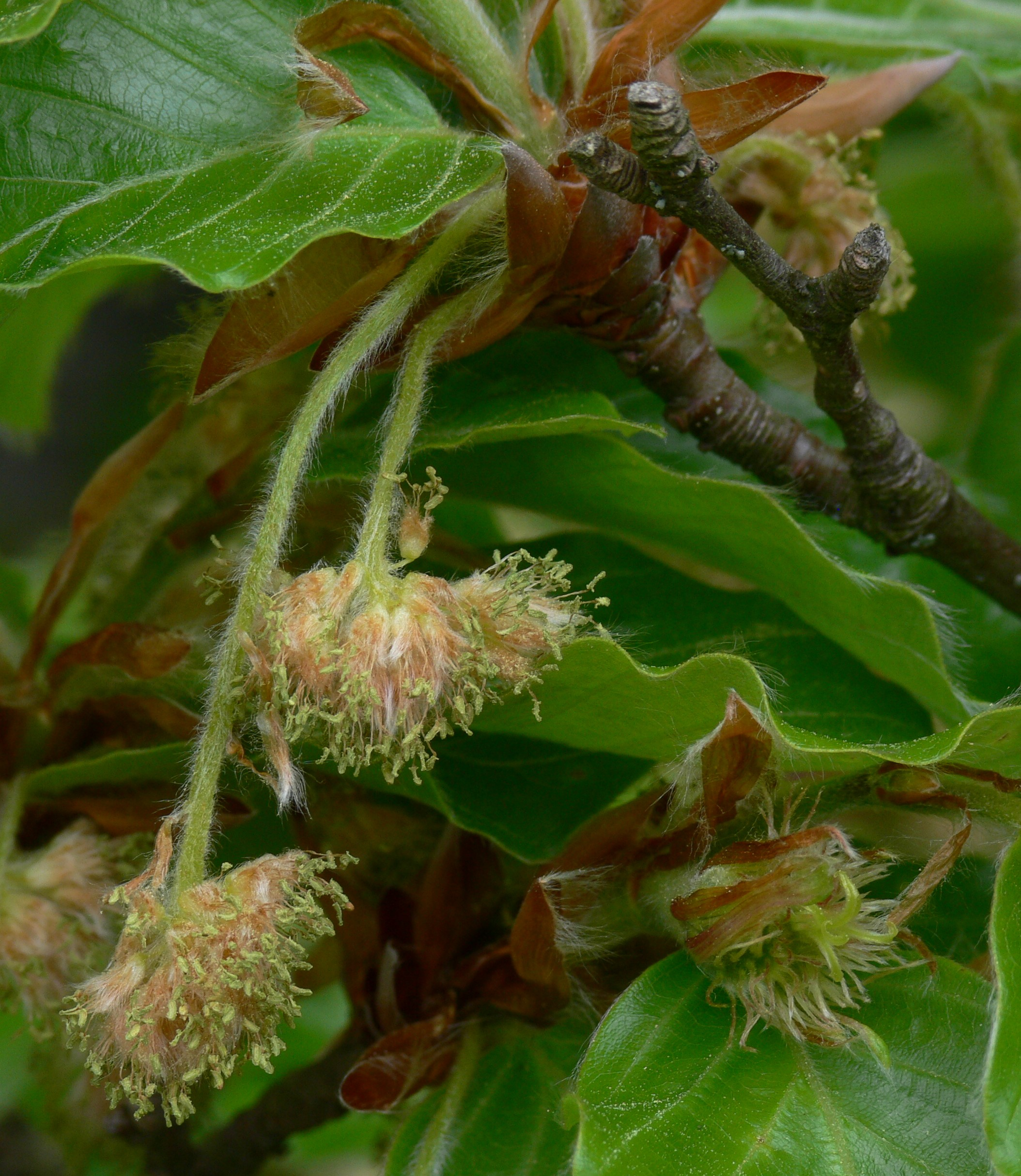 European beech - Fagus sylvatica - male flowers (left), female flower (right)